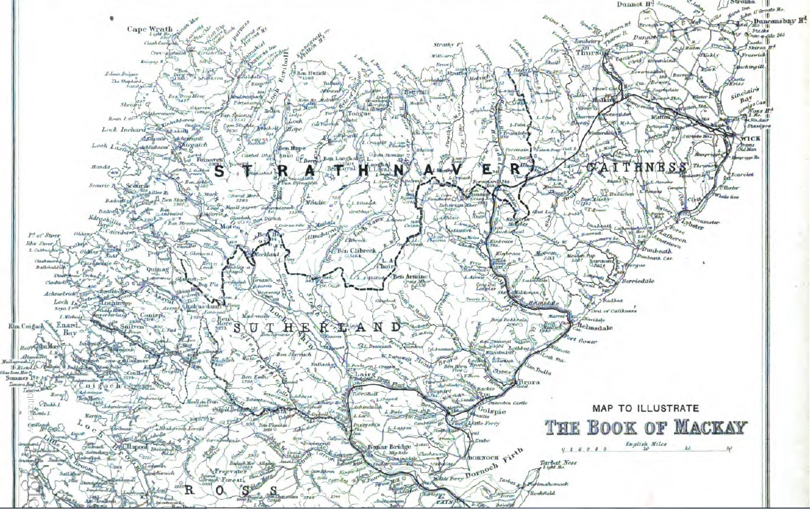 Map showing the former province of Strathnaver in the Scottish Highlands